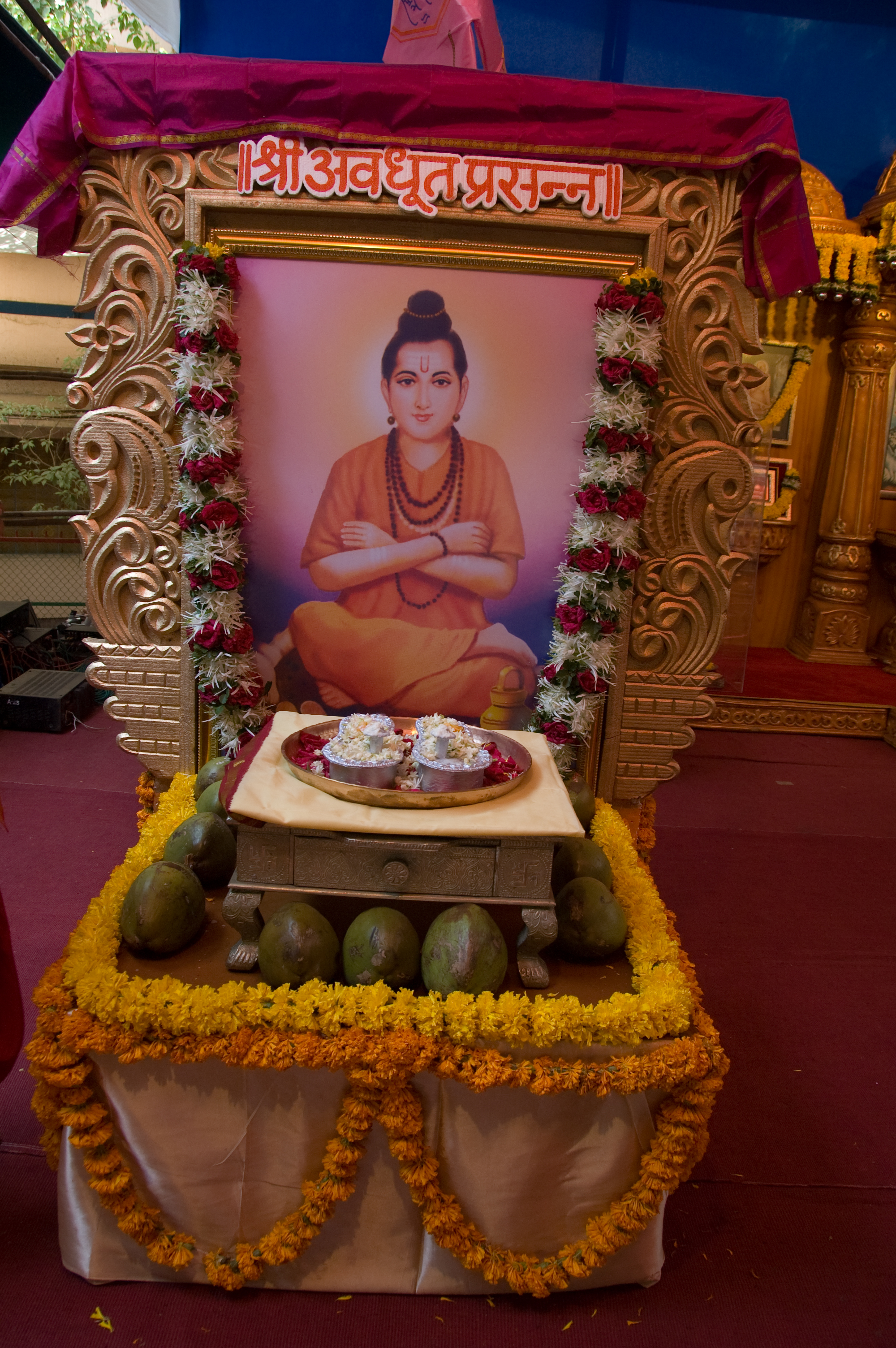 Lord Dattatreya Photo from Avdhootchintan Utsav